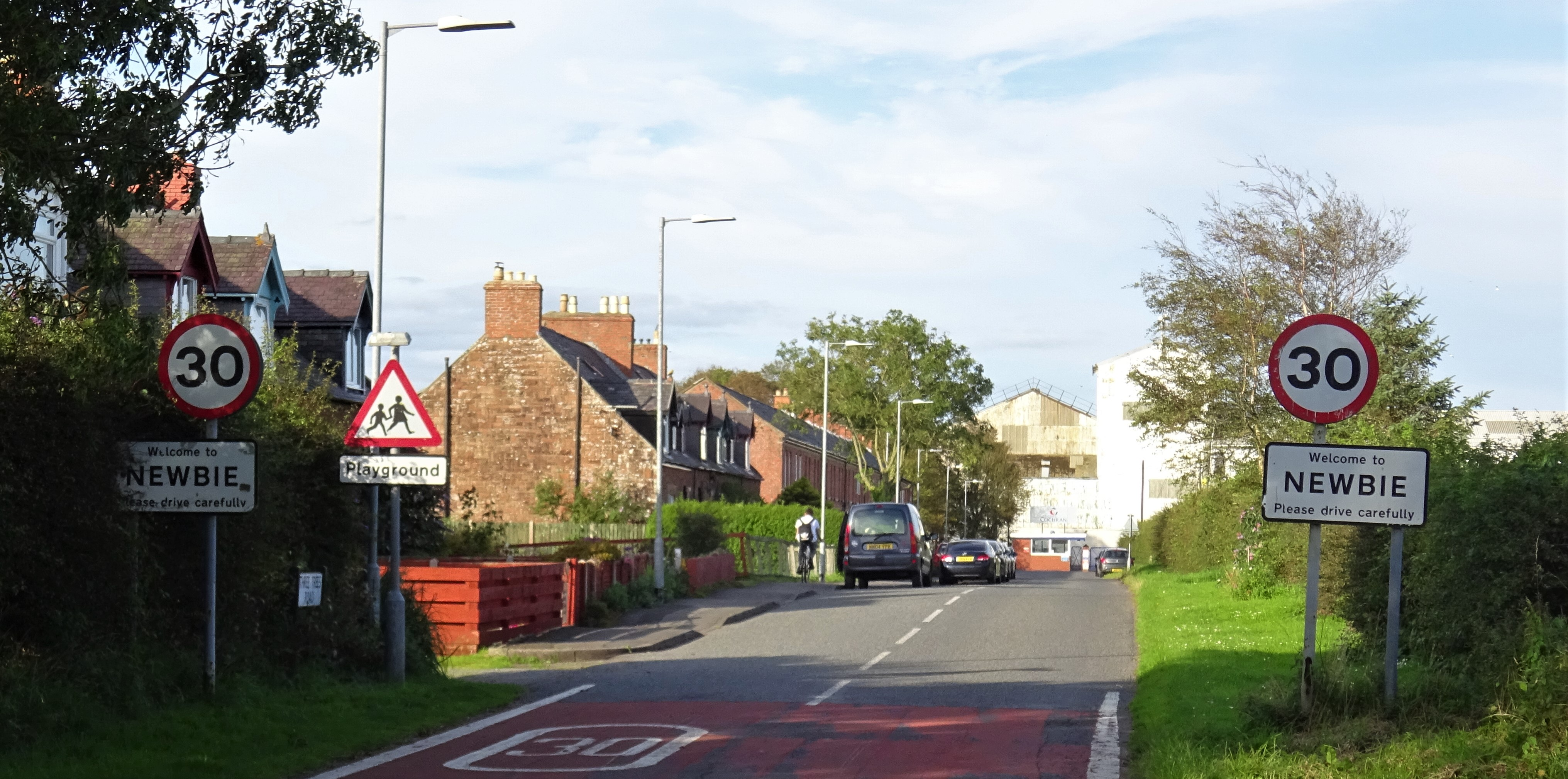 Newbie village, Dumfries and Galloway, Scotland. Cochrane's boiler works in the distance.